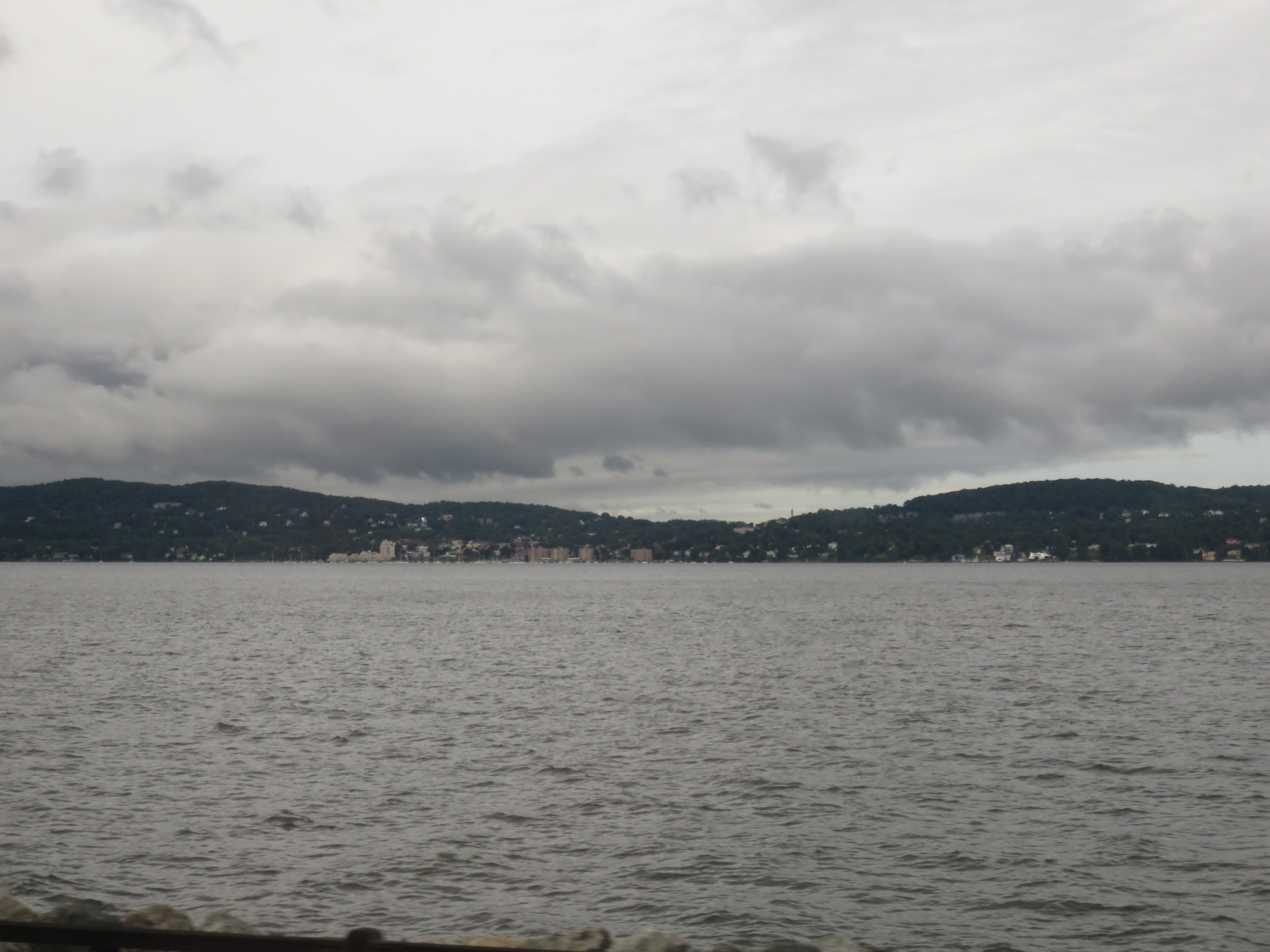 Nyack, New York from the Adirondack Amtrak train in 2017